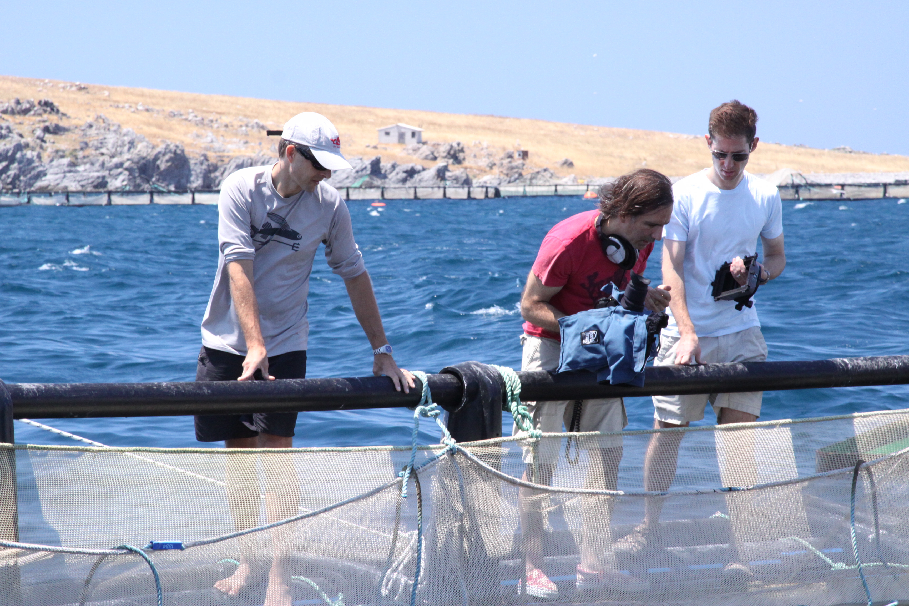 Production picture from Fish Meat documentary